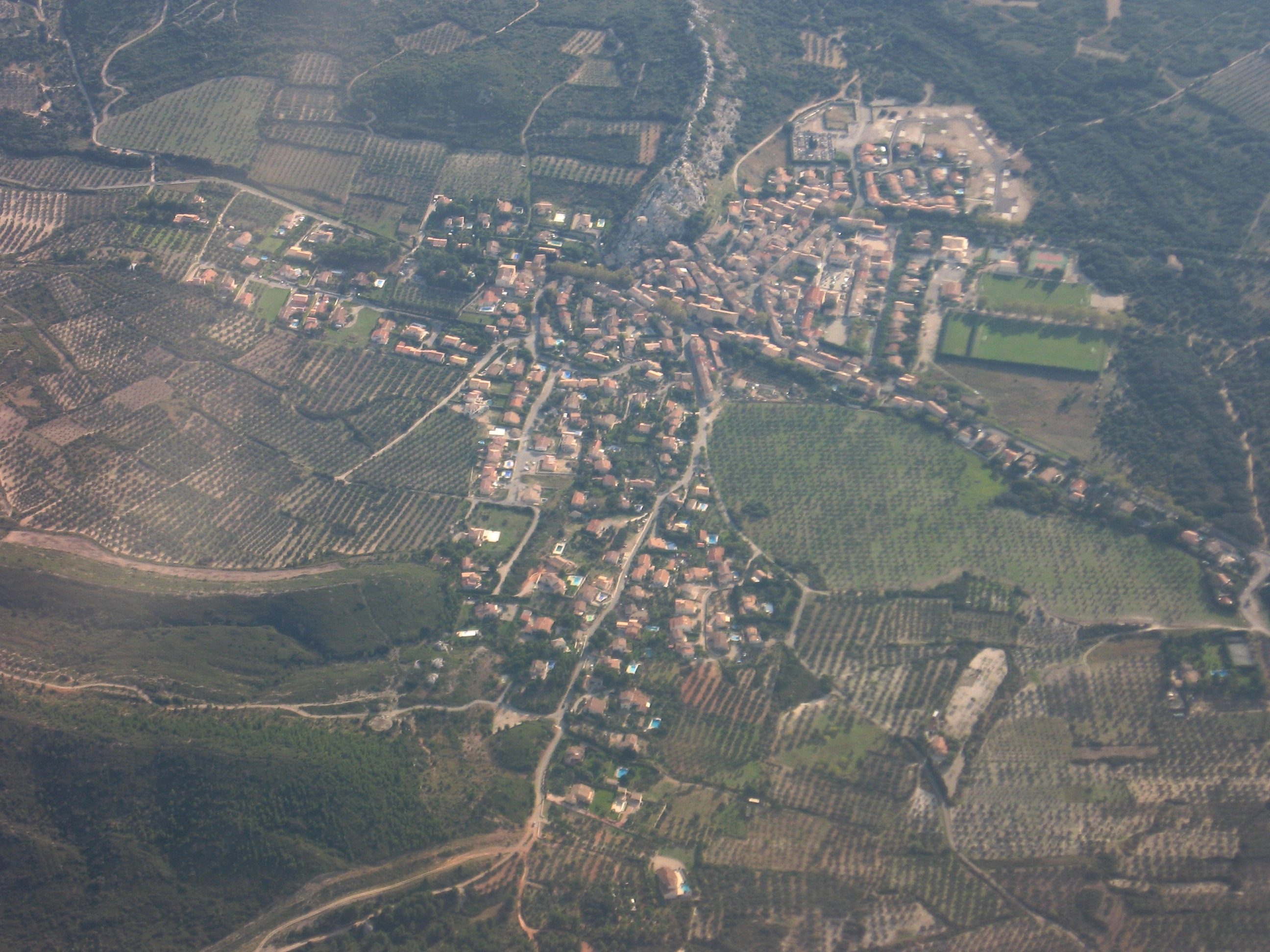 Aureille